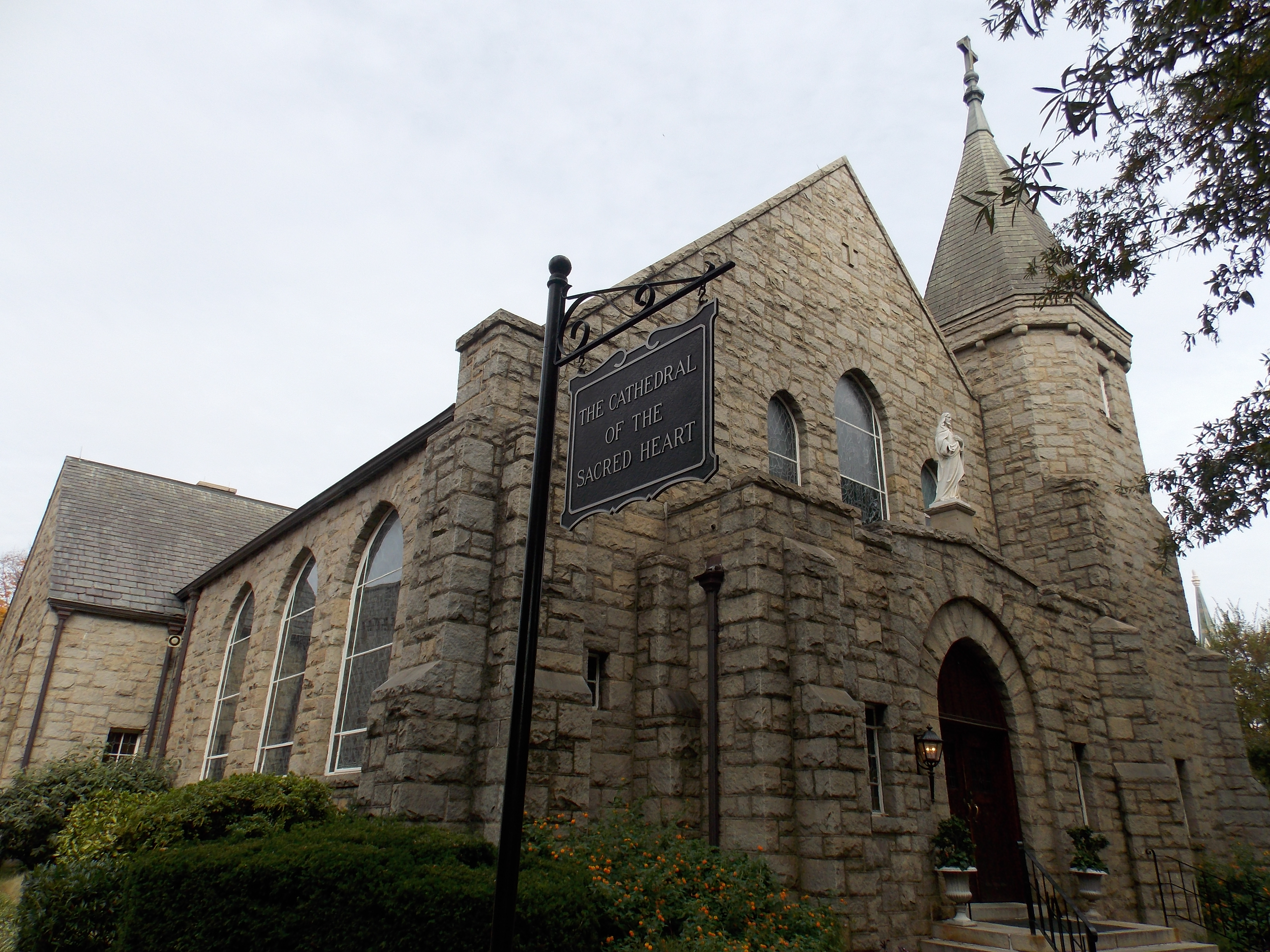 Sacred Heart Cathedral near downtown Raleigh, North Carolina.